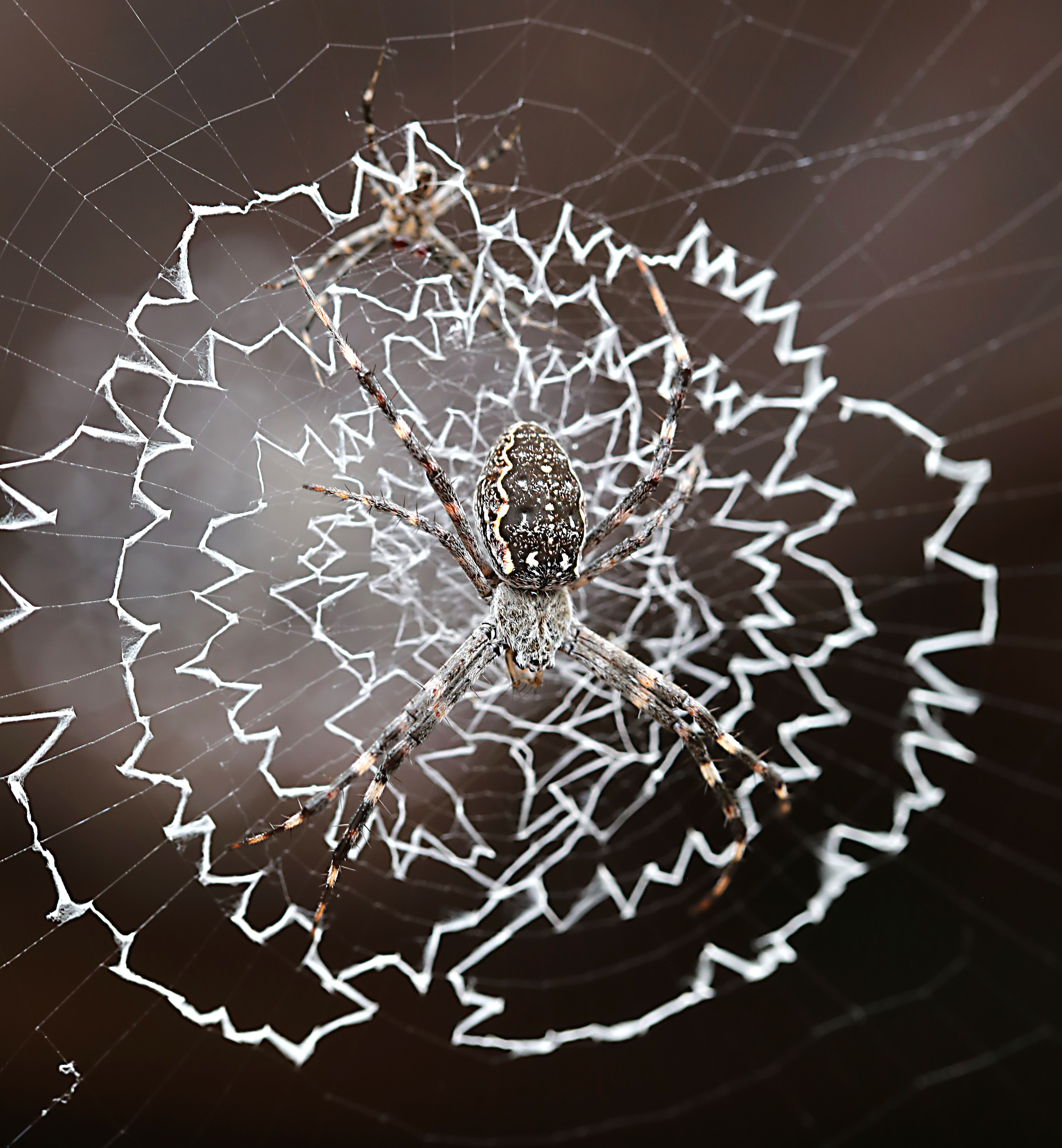 Female Argiope mascordi spider with circular stabilimentum, north Queensland, Australia. A male is at the upper left of this image behind the web.